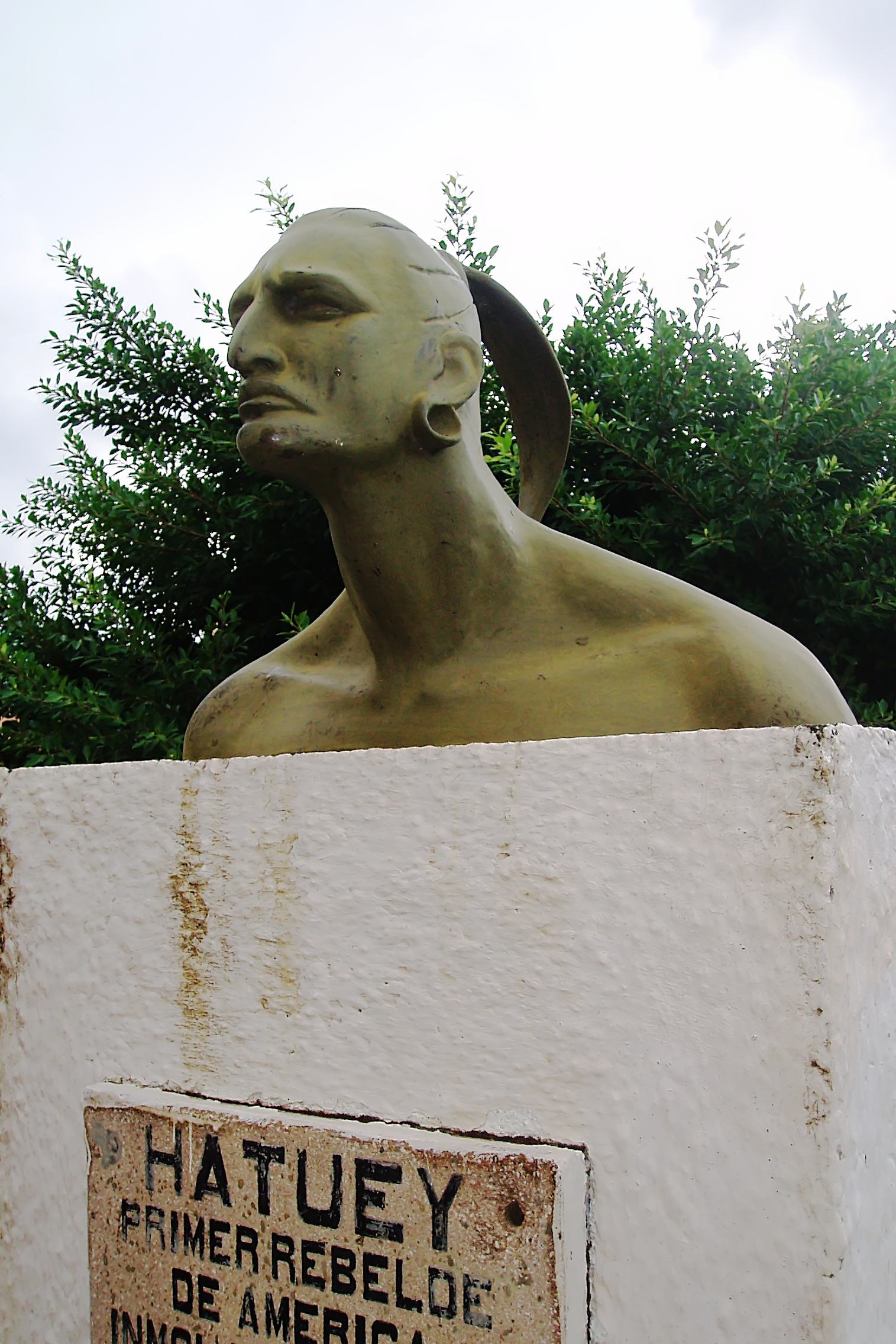 The monument of Hatuey, Taino chief − in Baracoa, Cuba.